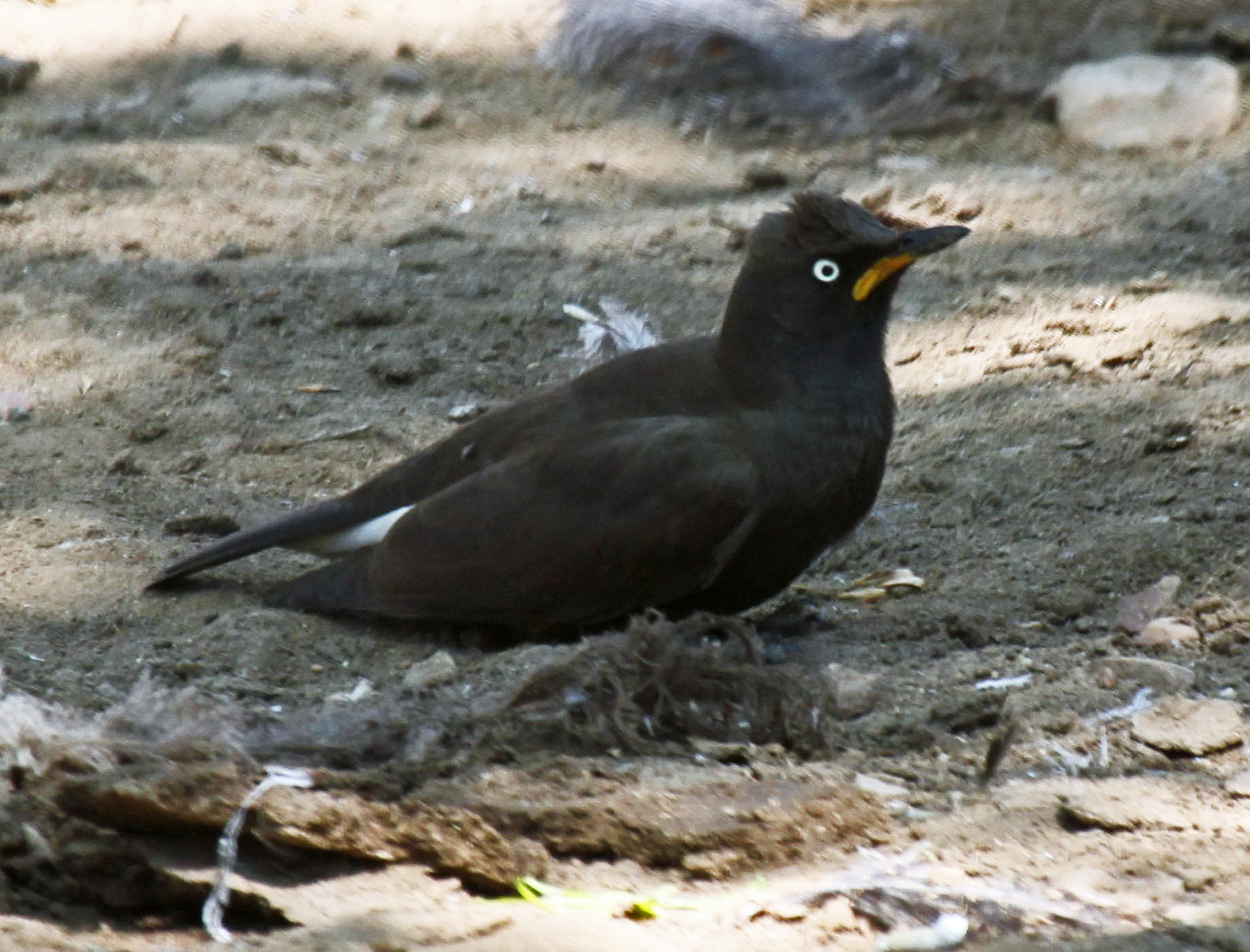 African Pied Starling (Spreo bicolor) at Oudtshoorn, South Africa